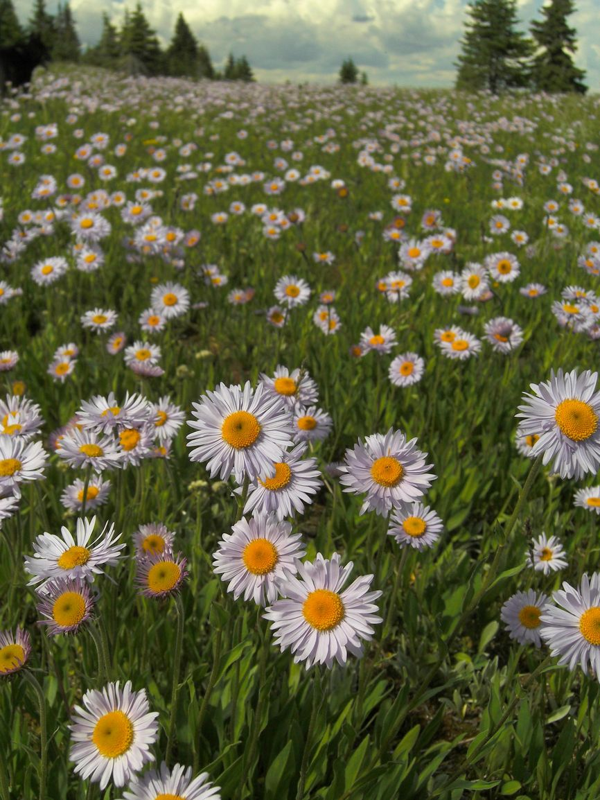 Erigeron peregrinus (Pursh) E. Greene 20090727.12 Table Mountain, Wells Gray Park, BC